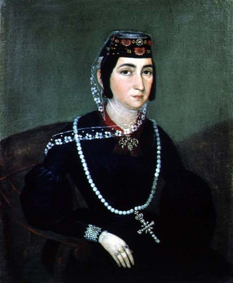 Princess Salome Chavchavadze, née Orbeliani.